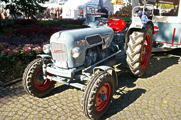 Tractor: Eicher EM 300 Königstiger